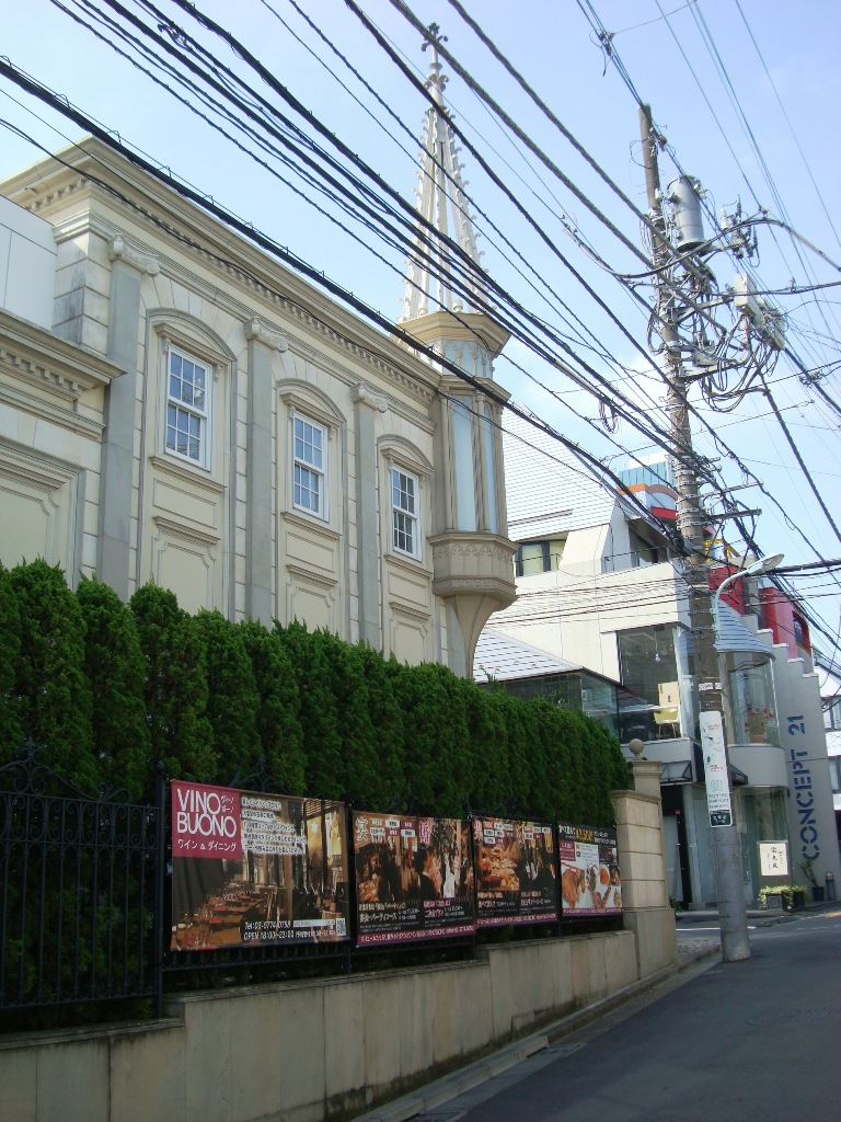 Aoyama St. Grace Cathedral in Kita-Aoyama, Tokyo, Japan